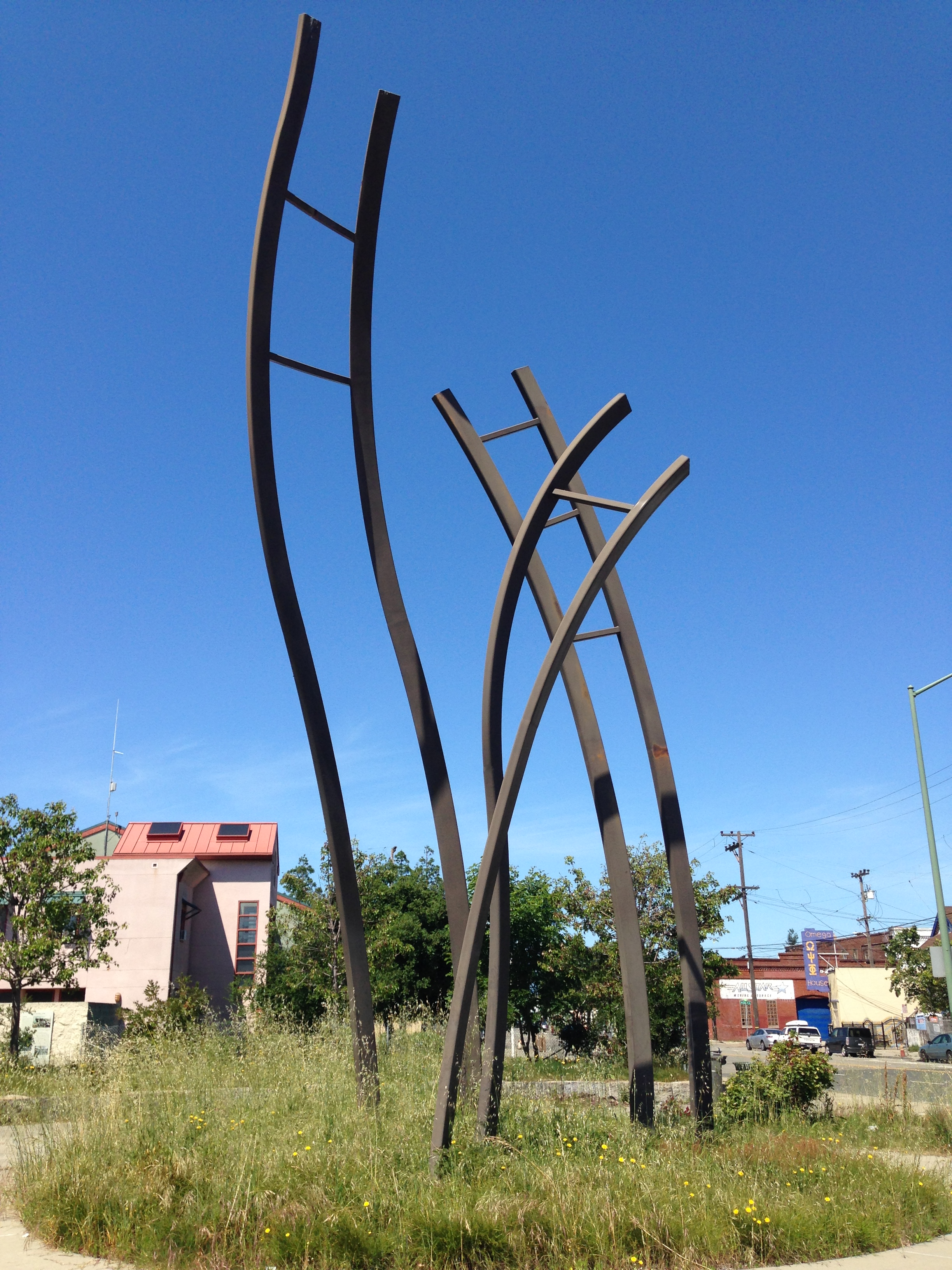 Cypress Freeway Memorial Park, located in West Oakland. 14th street and Mandela Parkway